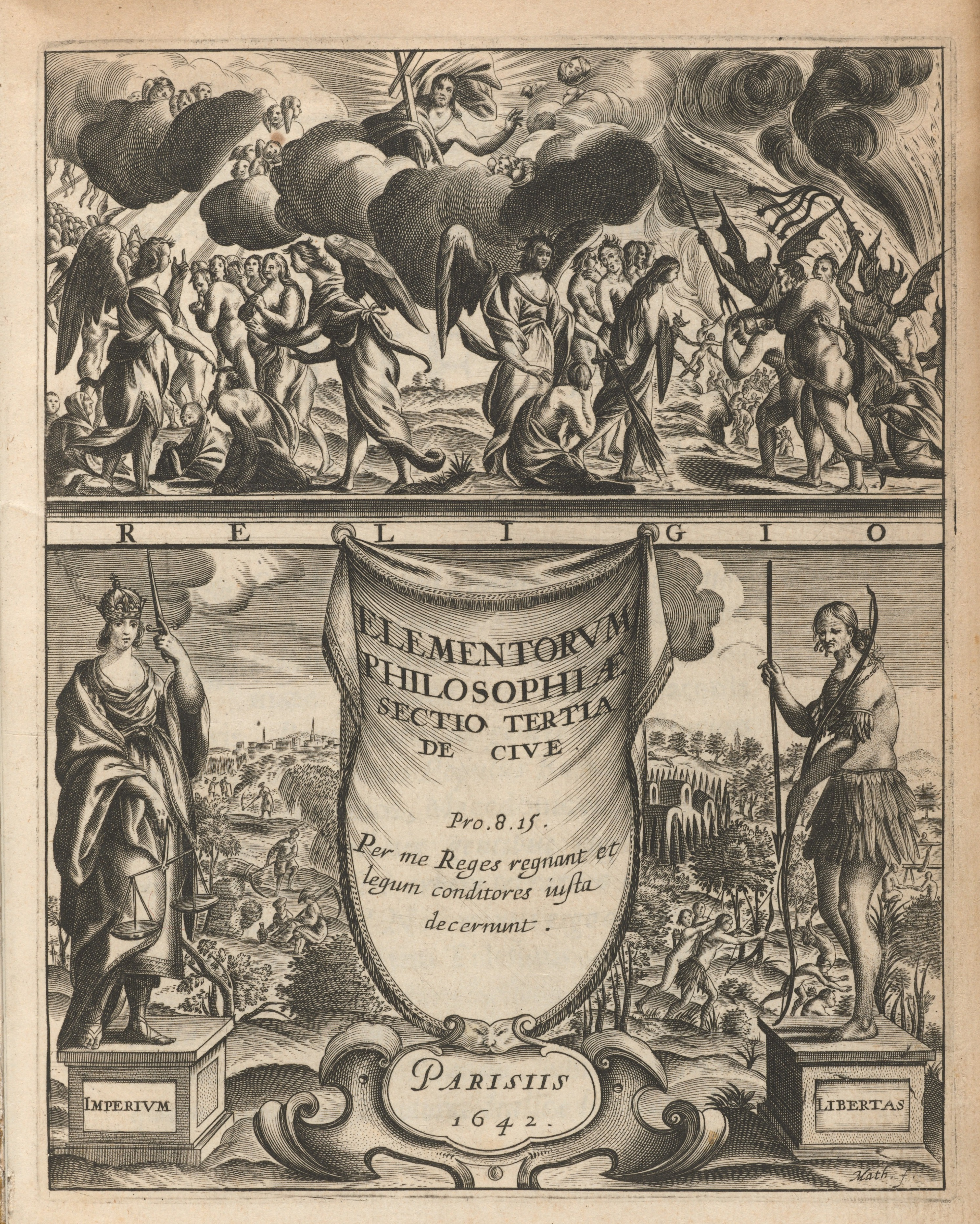 Frontispiece: Elementorum philosophiae sectio tertia de cive, Paris: 1642, by Thomas Hobbes. *EC65 H6525 642e, Houghton Library, Harvard University